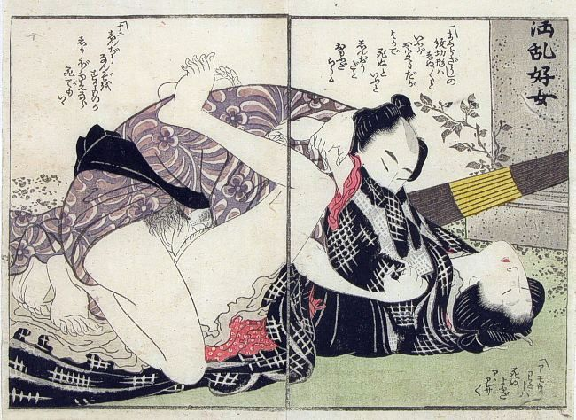 Shigenobu - Man and woman making love